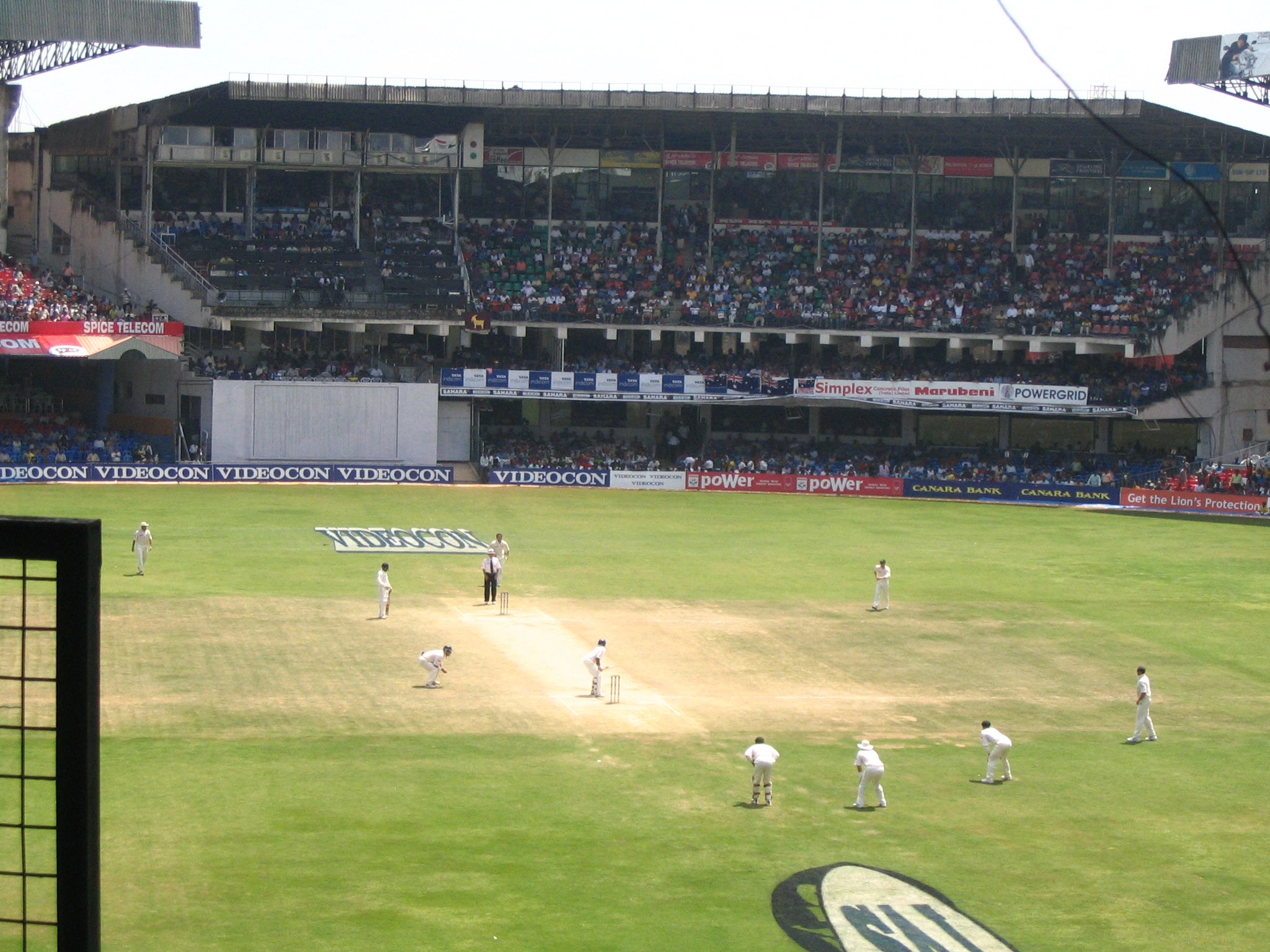 Krishna Kumar, First ball India sec. innings, Bangalore test, Oct 10th, 2004